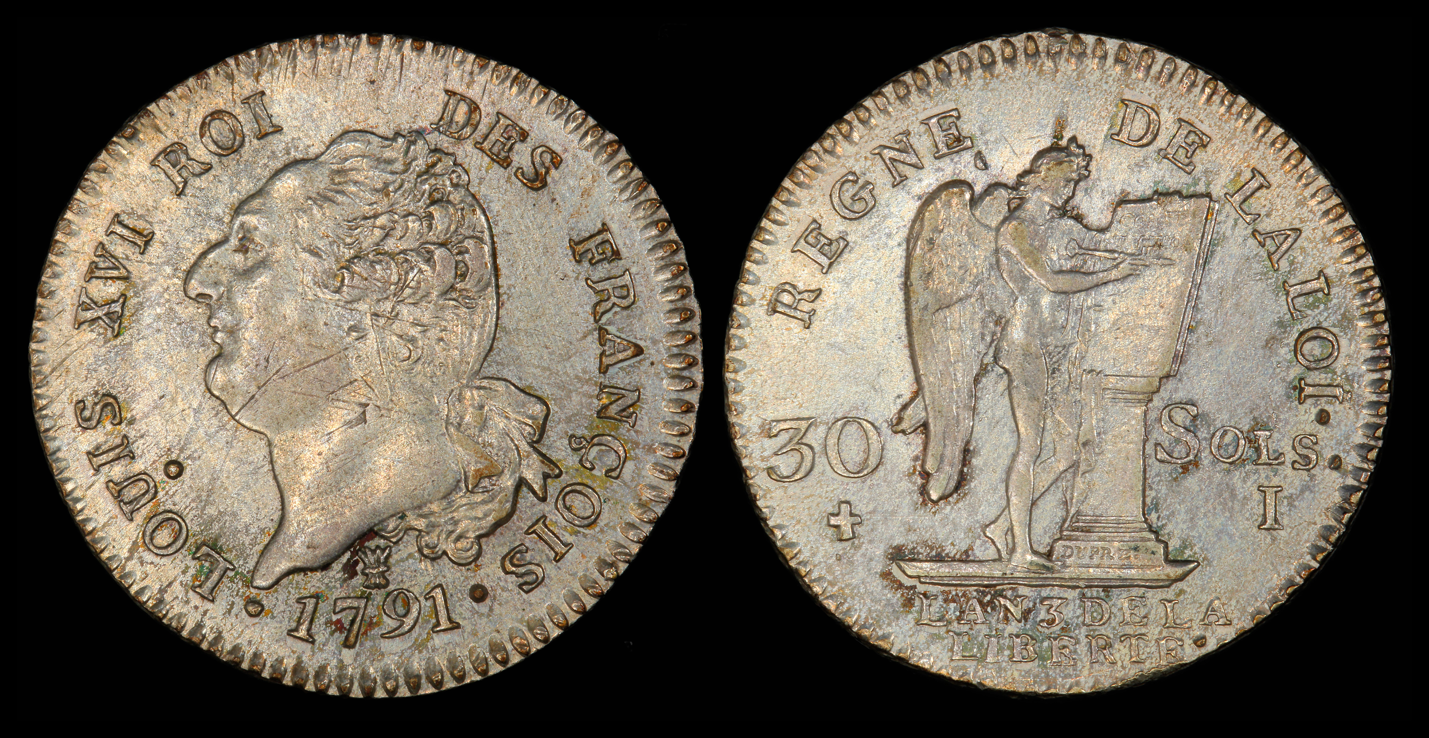 Kingdom of France, 30 sols, silver (1791). Louis XVI of France is depicted on the obverse with the "winged genius" designed by Augustin Dupré on the reverse.